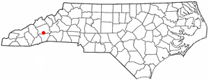 Category:North Carolina Dot Maps